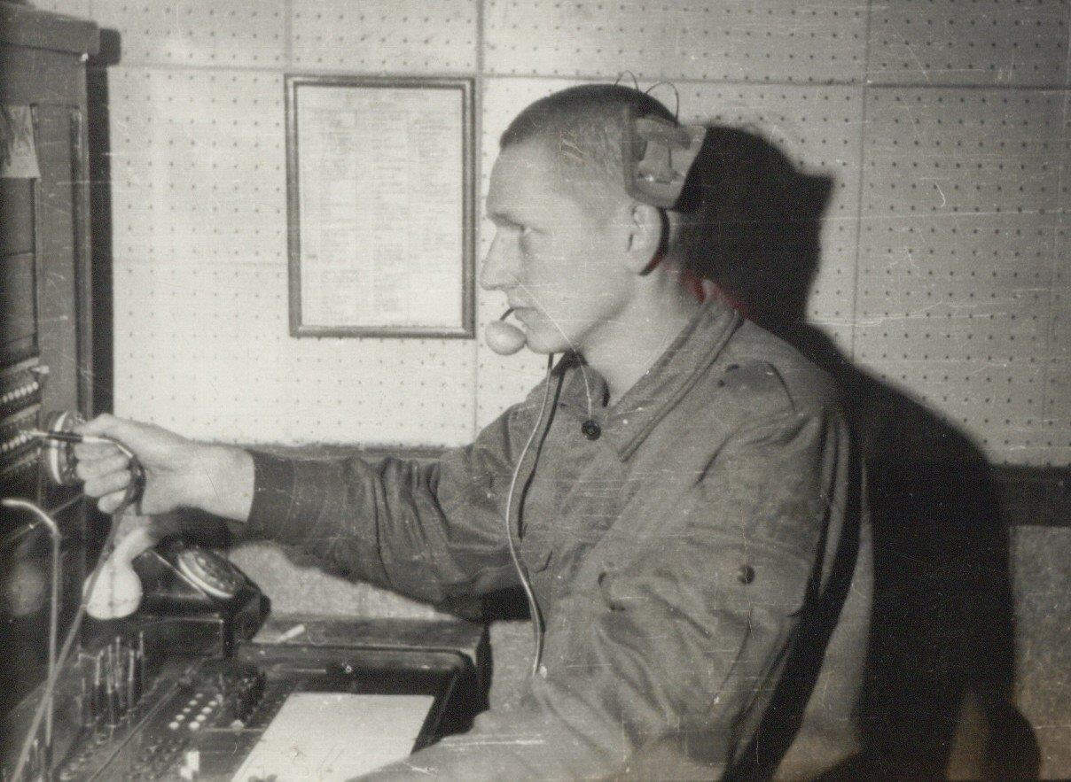 Border Protection Forces in Prudnik